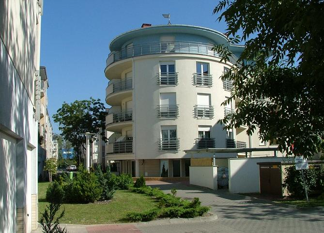 Poznan - Zielony Taras District (Milczanska Street).